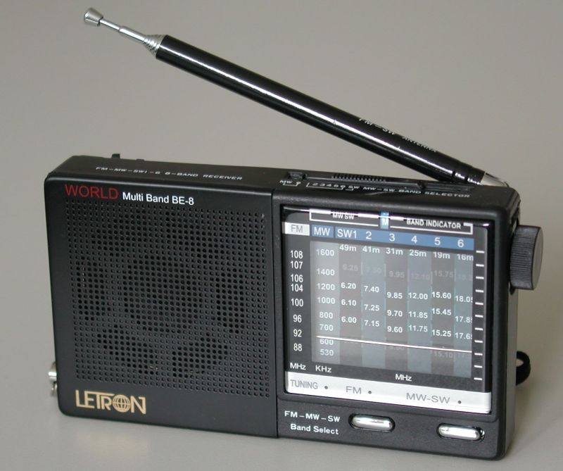 Radio